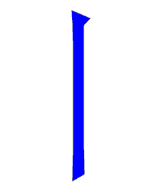 Chinese radical 2 丨 (stroke)